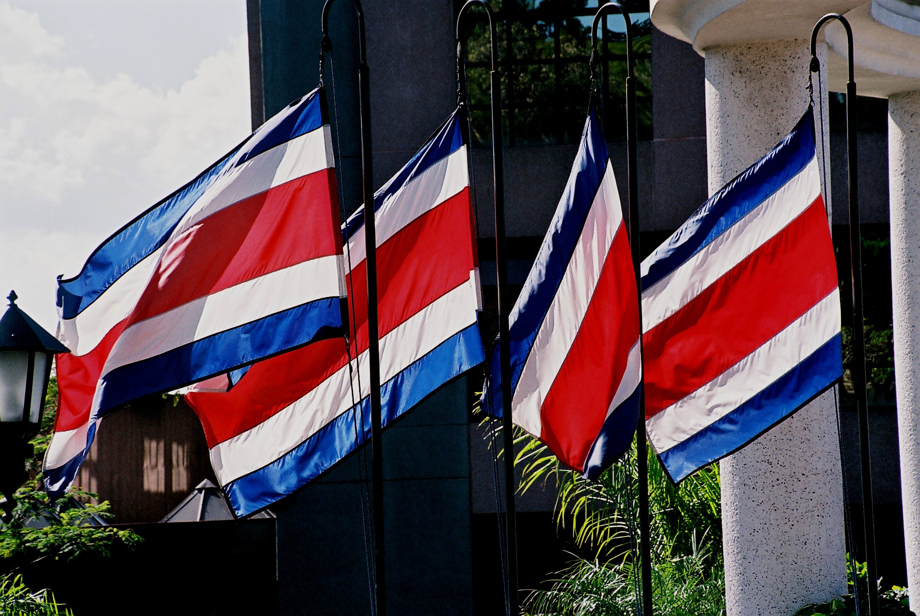 Flags in front of the TSE (Tribunal Supremo de Elecciones, or Supreme Elections Court). This Republic institution overlooks and controls anything related to the elections processes in Costa Rica.